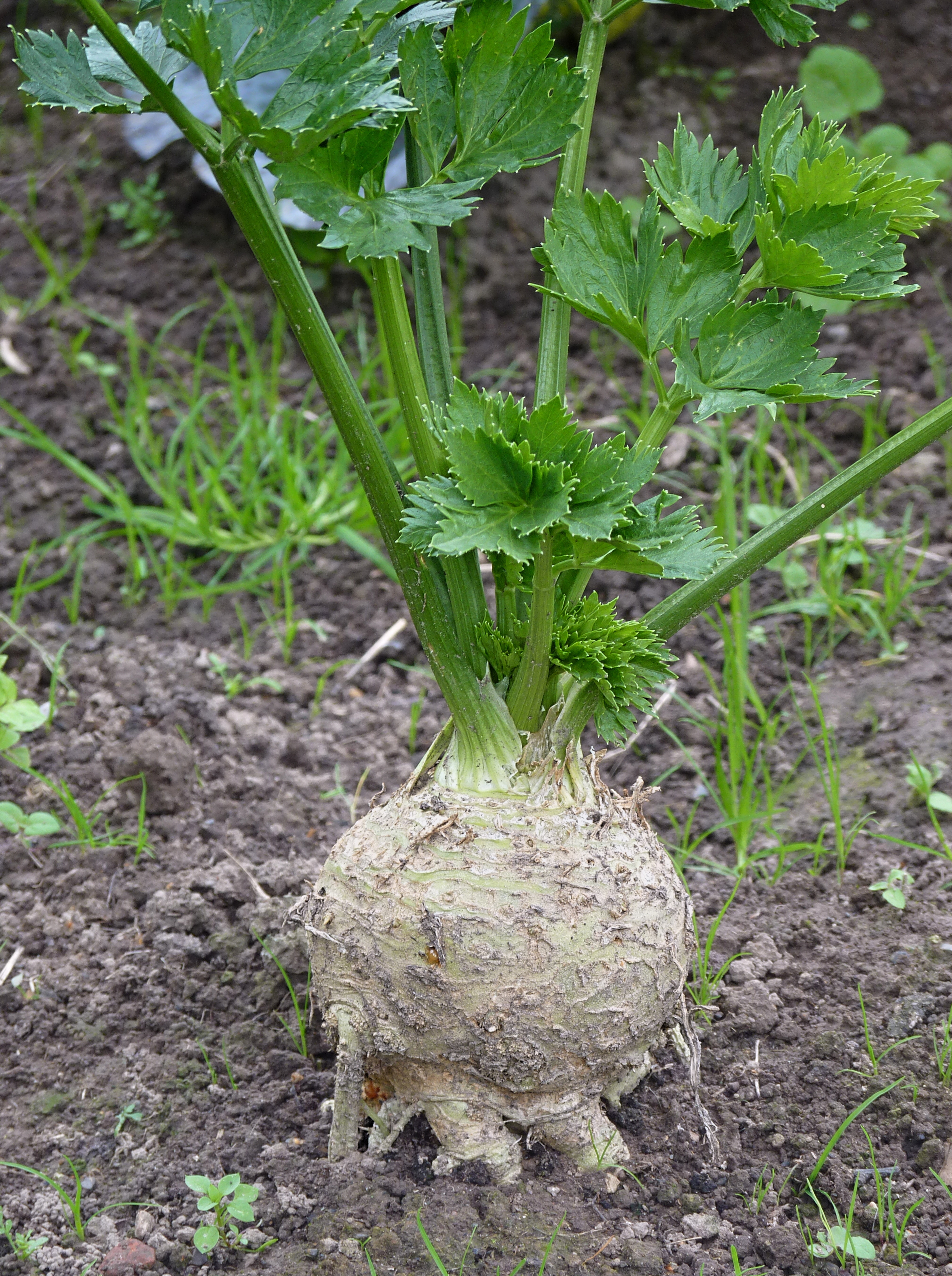 Celeriac in a vegetable garden in Belgium.